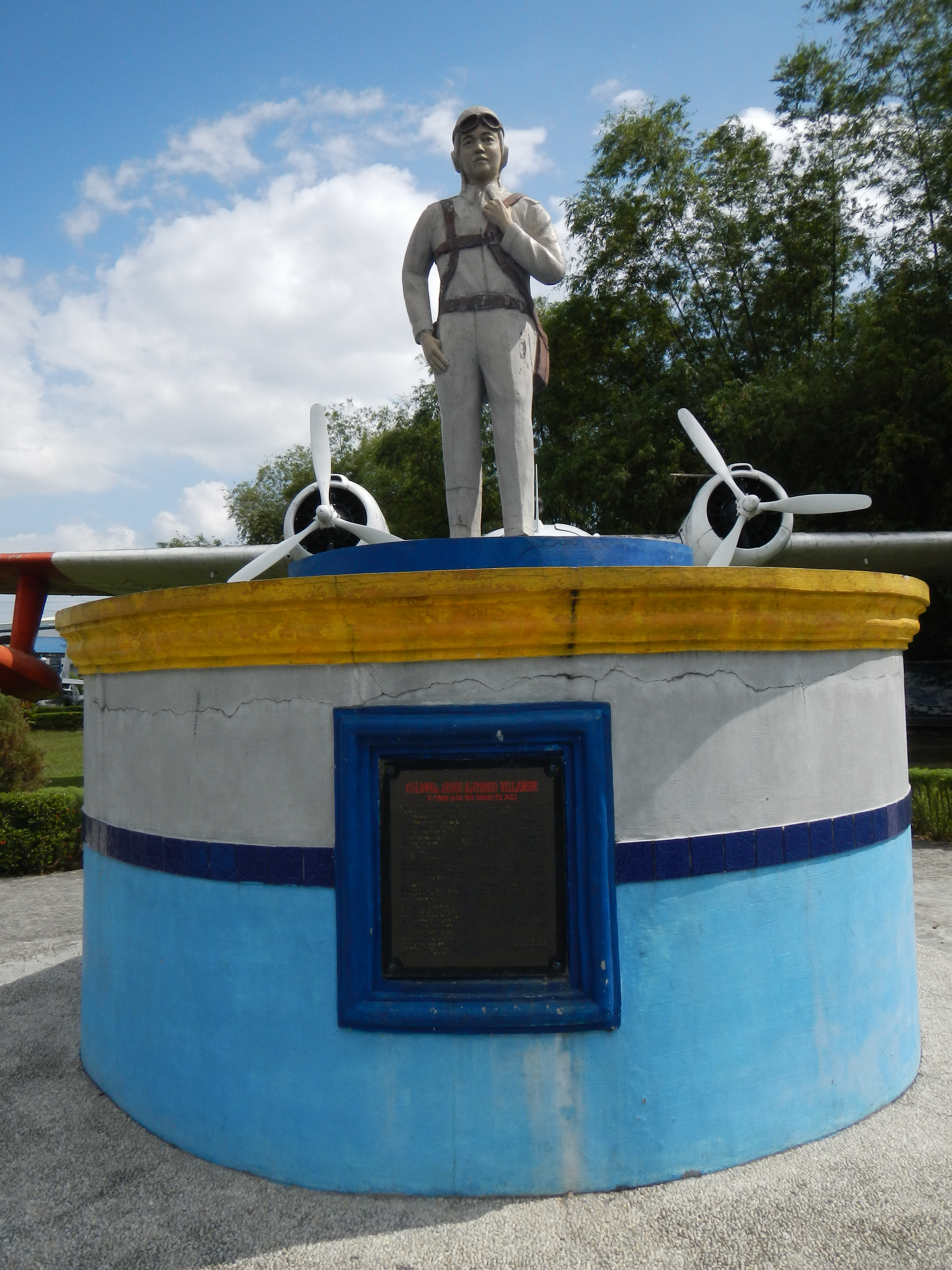 Upload Wizard photos of - Villamor Air Base [1] named after Jesús A. Villamor [2] Philippine Air Force [3] locted at Parañaque City and Pasay City, Metro Manila - the - Philippine Air Force Museum or Villamor Air Base Aircraft PAF Museum or Aerospace Museum Villamor Air Base Pasay City [4] --- List of former aircraft of the Philippine Air Force [5] - the Museum includes --- a) The Bell UH-1 Iroquois unofficially Huey [6] Bell UH-1 Iroquois Bell UH-1 family UH-1 Huey, b) North American F-86 Sabre [7] c) Lockheed T-33 [8] T-33 at the Philippine Air Force Museum at Villamor Air Base d) Vought F-8 Crusader redirect from F-8 [9] F-8H Crusader of the Philippine Air Force. c. 1978 e) North American F-86D Sabre [10] Acquired 20 F-86Ds, beginning 1957; part of the U.S. military assistance package f) F-86D of the Philippine Air Force Northrop F-5A/B Freedom Fighter and the F-5E/F Tiger II [11] [12] the Philippine Air Force acquired 37 F-5A/B from 1965 to 1998 g) Sikorsky S-62 [13] S-62B One S-62 was fitted with the main rotor system of the S-58 h) Douglas C-47 Skytrain [14] Philippine Air Force President Magsaysay of the Philippines was killed in the crash of a Philippine Air Force C-47 in 1957 Some were ex-RAAF C-47s received as foreign aid.[15] i) Grumman HU-16 Albatross [16] j) NAMC YS-11[17] k) Beechcraft T-34 Mentor[18] Beechcraft T-34 Mentor l) Cessna T-41 Mescalero[19] m) North American T-6 Texan[20] n) North American T-28 Trojan [21] T-28C 140533 - Villamor AB in Manila, The Philippines.